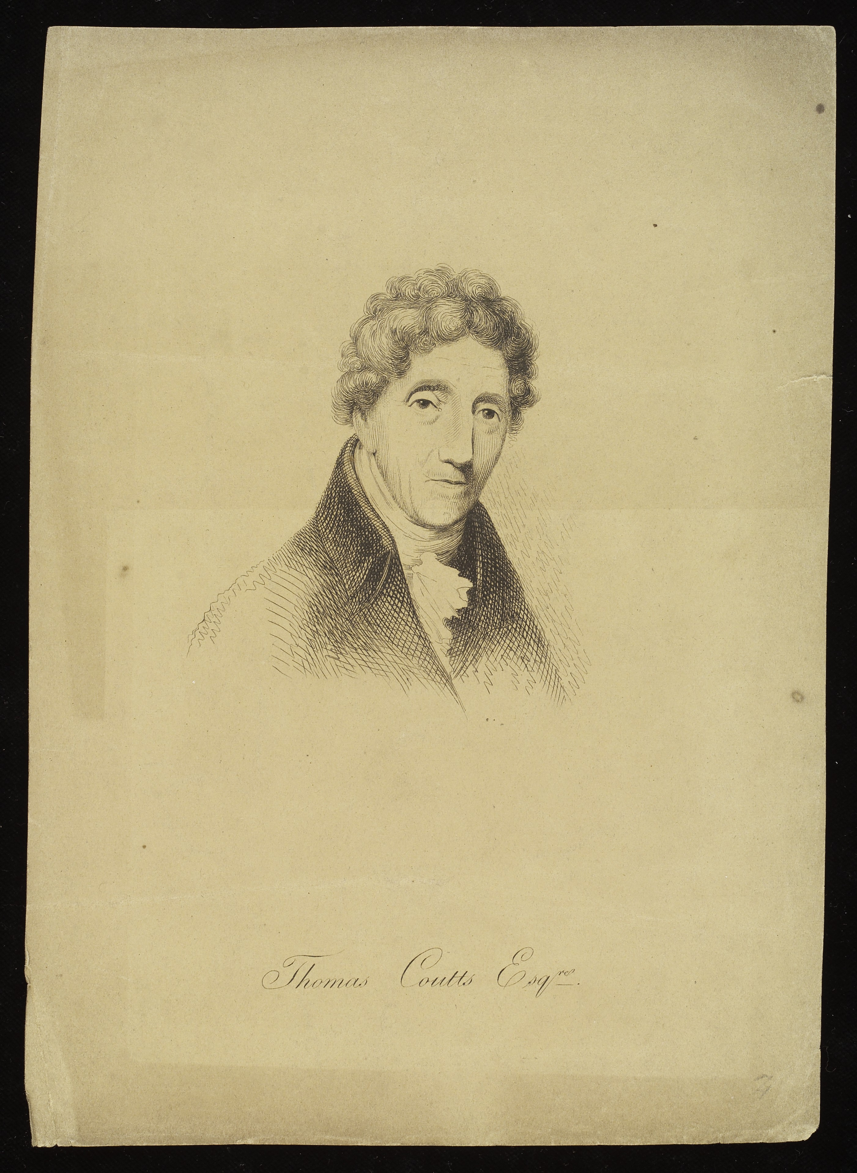 Etching portrait of Thomas Coutts (1735-1822), founder of Coutts Bank. (Coutts owed his success as a banker to his discretion and his understanding of human nature, which inspired trust and affection; and to his organizing and punctilious business practices, which brought financial gain. Some of the most influential aristocrats were Coutts's customers, but his greatest pride was in royal patronage. George III became a customer of the Coutts brothers at the beginning of his reign, through the influence of his prime minister and keeper of the privy purse, the earl of Bute, who had known their father, Provost Coutts. So began the lasting connection between Coutts and Co. and the royal family.) Iconographic Collections Keywords: William Beechey; Costume; Portraiture; Thomas Coutts